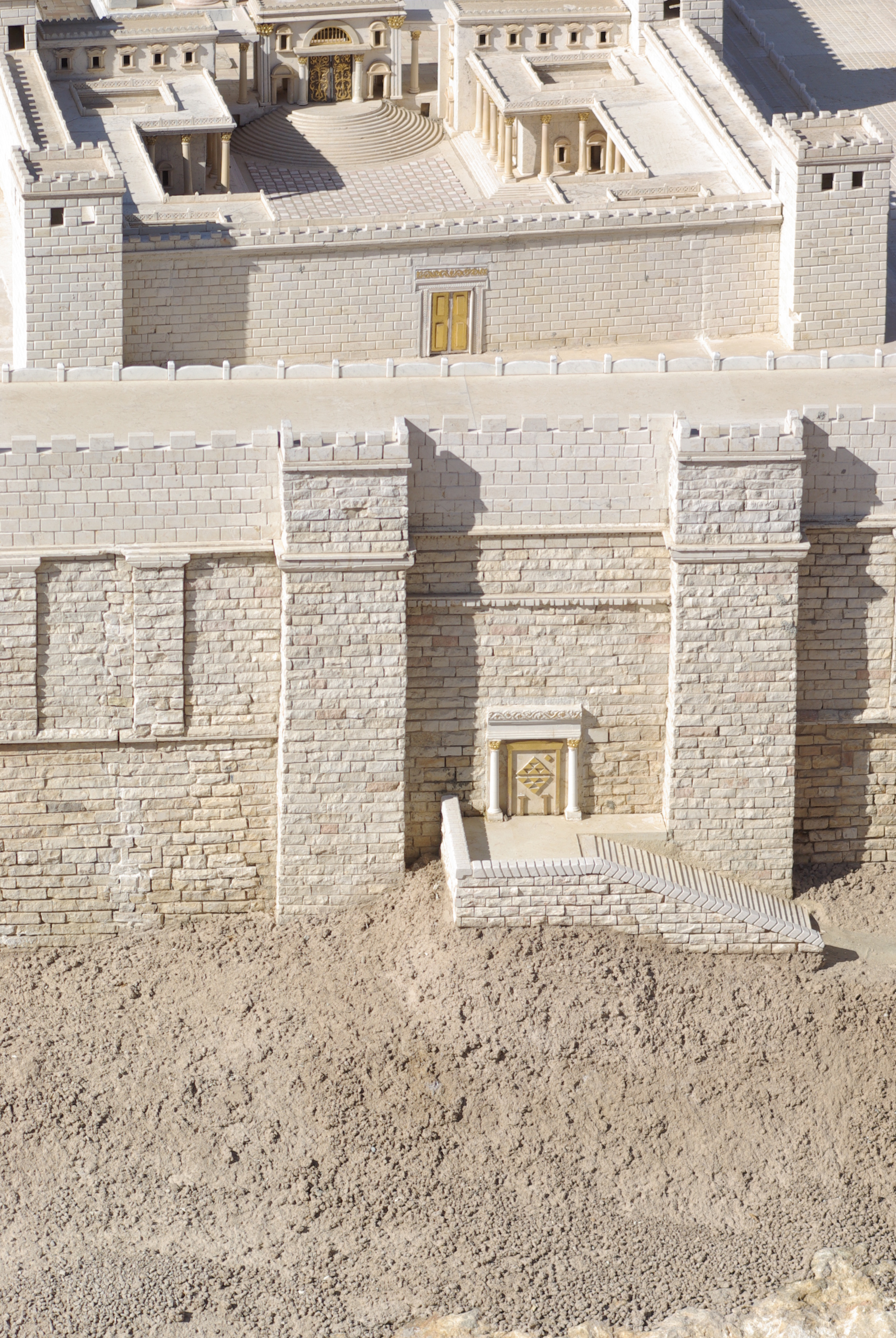 Jerusalem Model, Golden gate